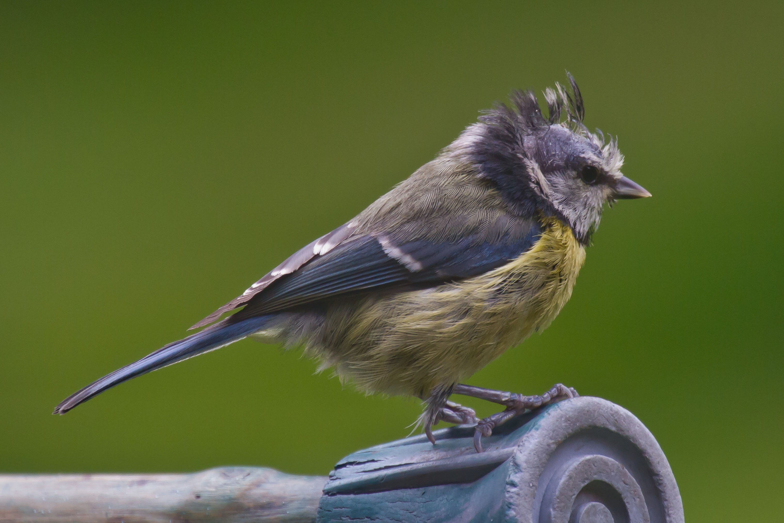 A bald blue tit suffering from mite disease